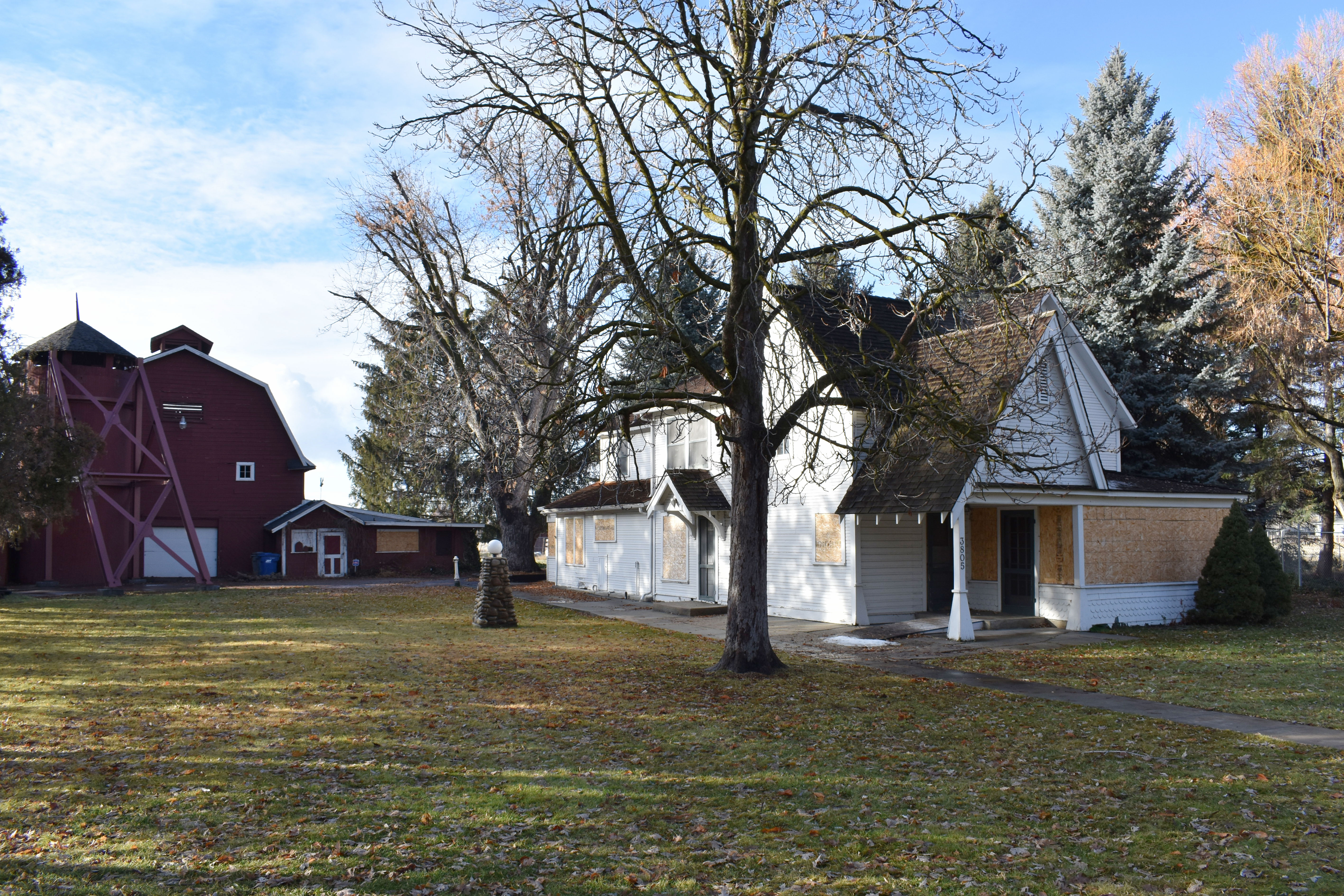 The Almon W. and Dr. Mary E. Spaulding Ranch (1905) in Boise, Idaho, is listed on the National Register of Historic Places. The ranch was acquired by city in 2016 and is managed by the Department of Parks and Recreation.